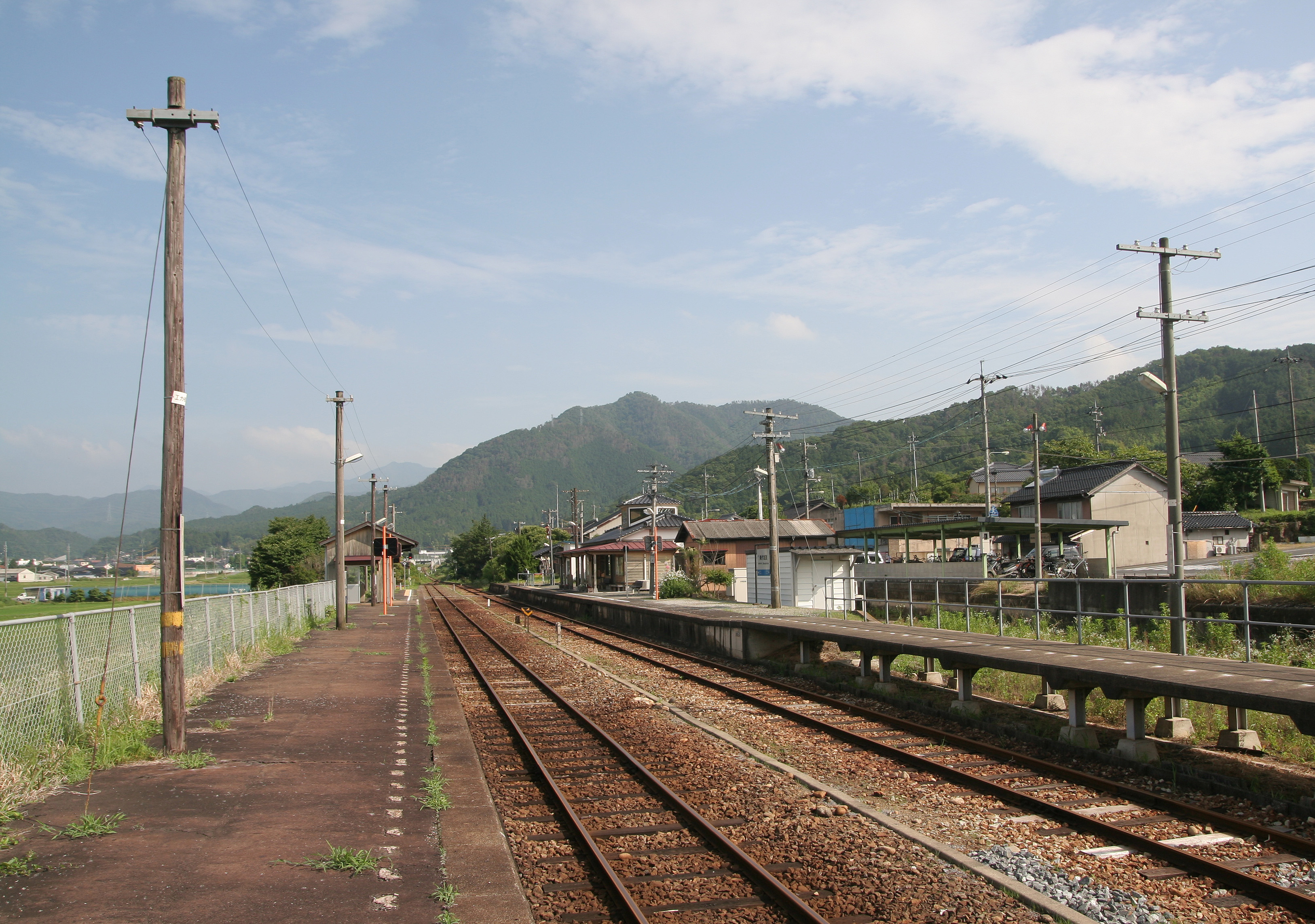 West Japan Railway Inbi Line Mimasaka-kamo station enclosure